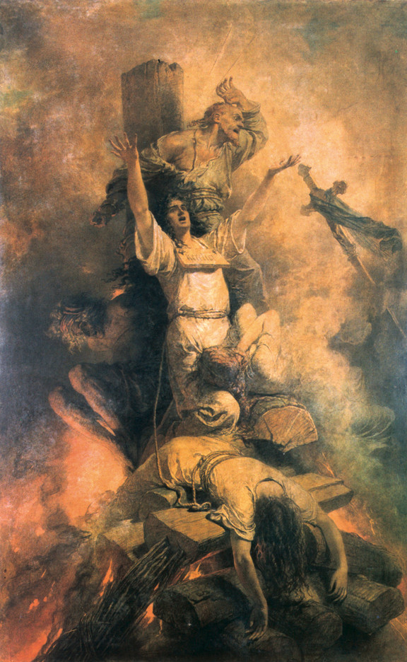 Autodafé Painting by Mihály Zichy (1868), which reveals the horrors of the Spanish Inquisition.